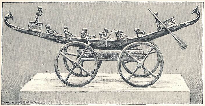 Illustration of a Votive Barque of the 17th dynasty Egyptian pharaoh Kamose